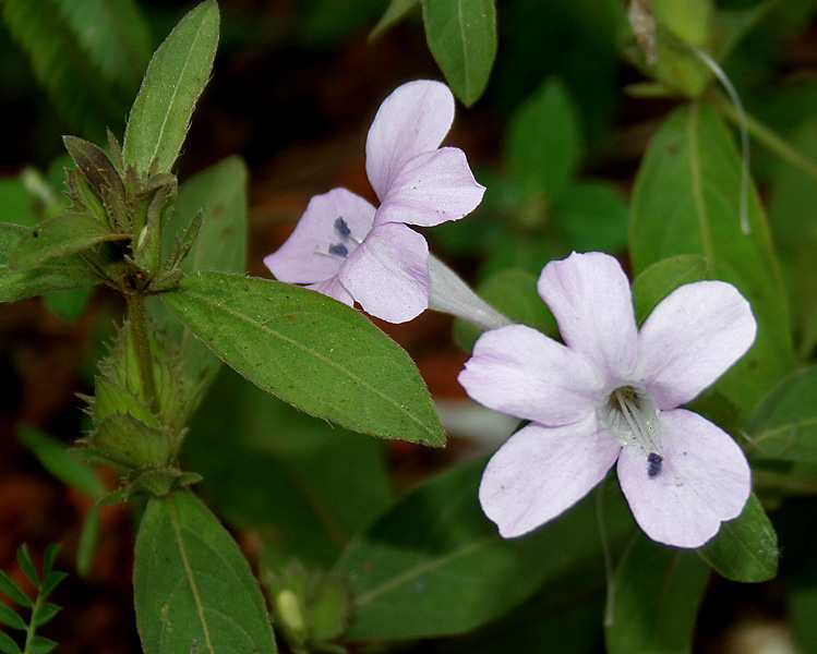 Barleria cristata (Syn. B. dichotoma)- Bluebell barleria, Crested Philippine violet, Philippine violet • Hindi: Vajra danti वज्र दंती • Assamese: Jhinili • Tamil: செம்முள்ளி Semmulli • Telugu: Tellanilambari • Bengali: Janti • Oriya: Koilekha- at Ananthagiri Hills, in Rangareddy district of Andhra Pradesh, India.